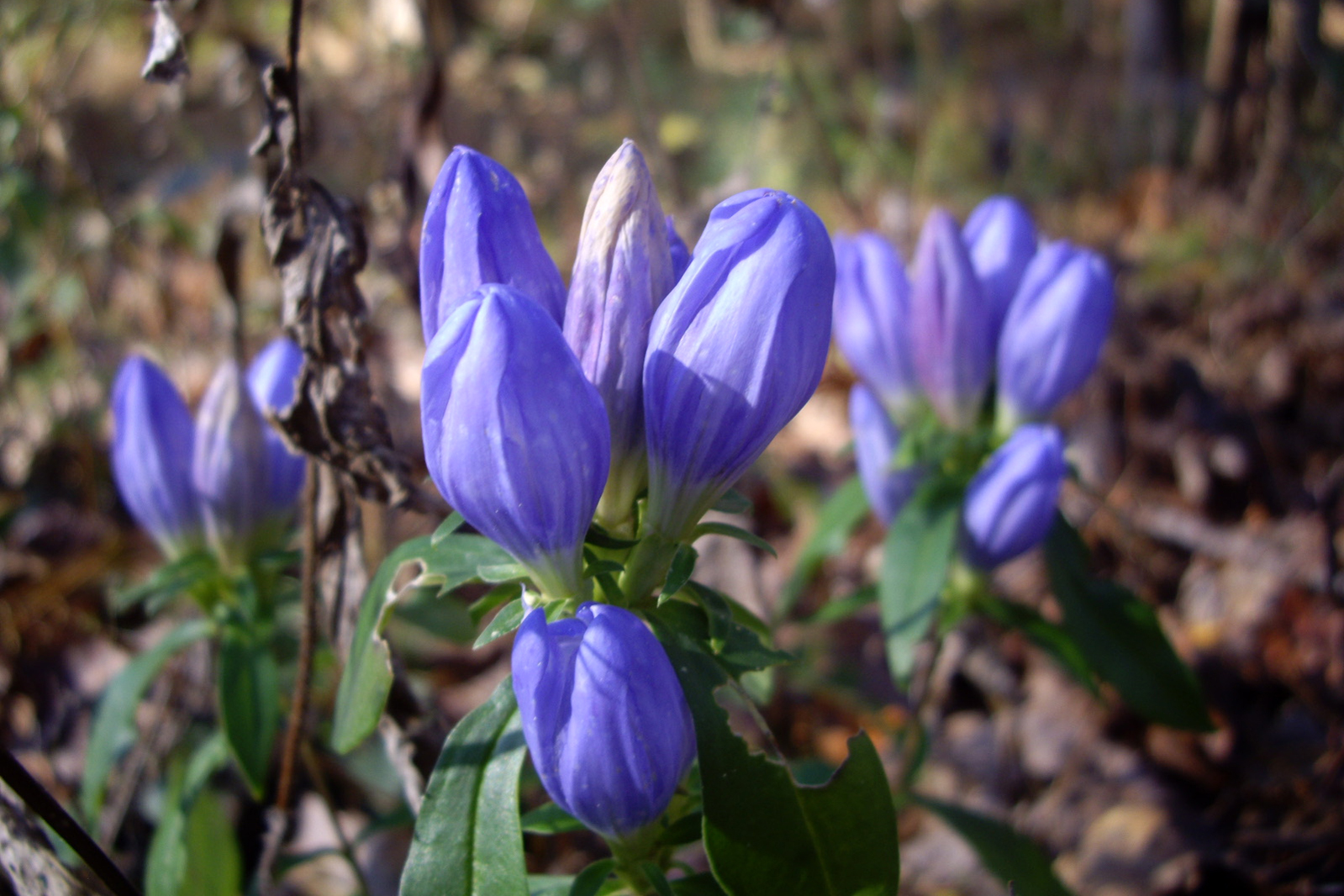 Gentiana saponaria (soapwort gentian, soap gentian, harvestbells)